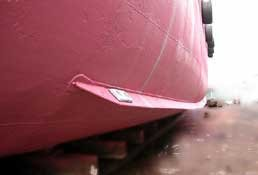 Bilge keel on a steel vessel